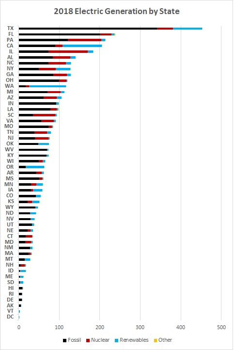 2018 Electric Generation by State